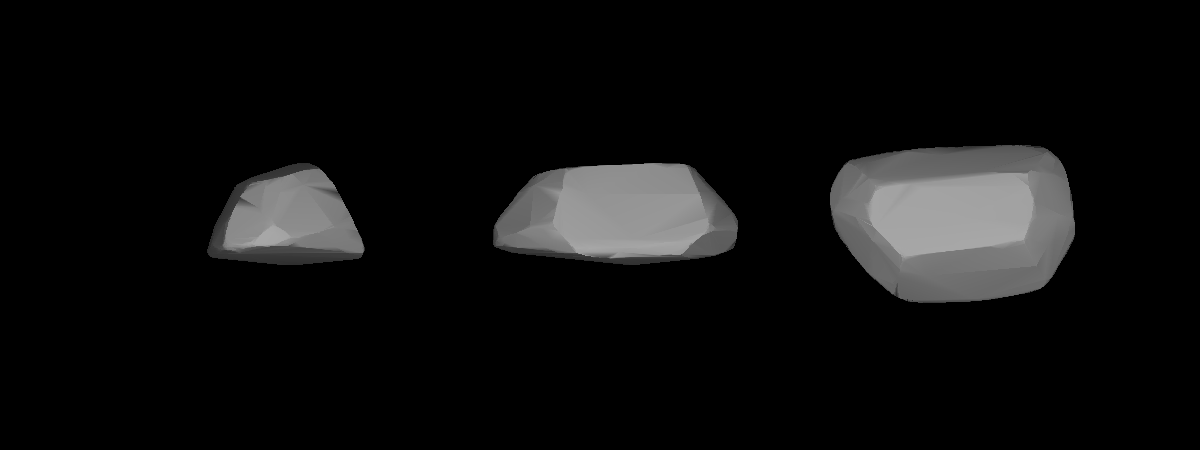 A three-dimensional model of 1089 Tama that was computed using light curve inversion techniques.